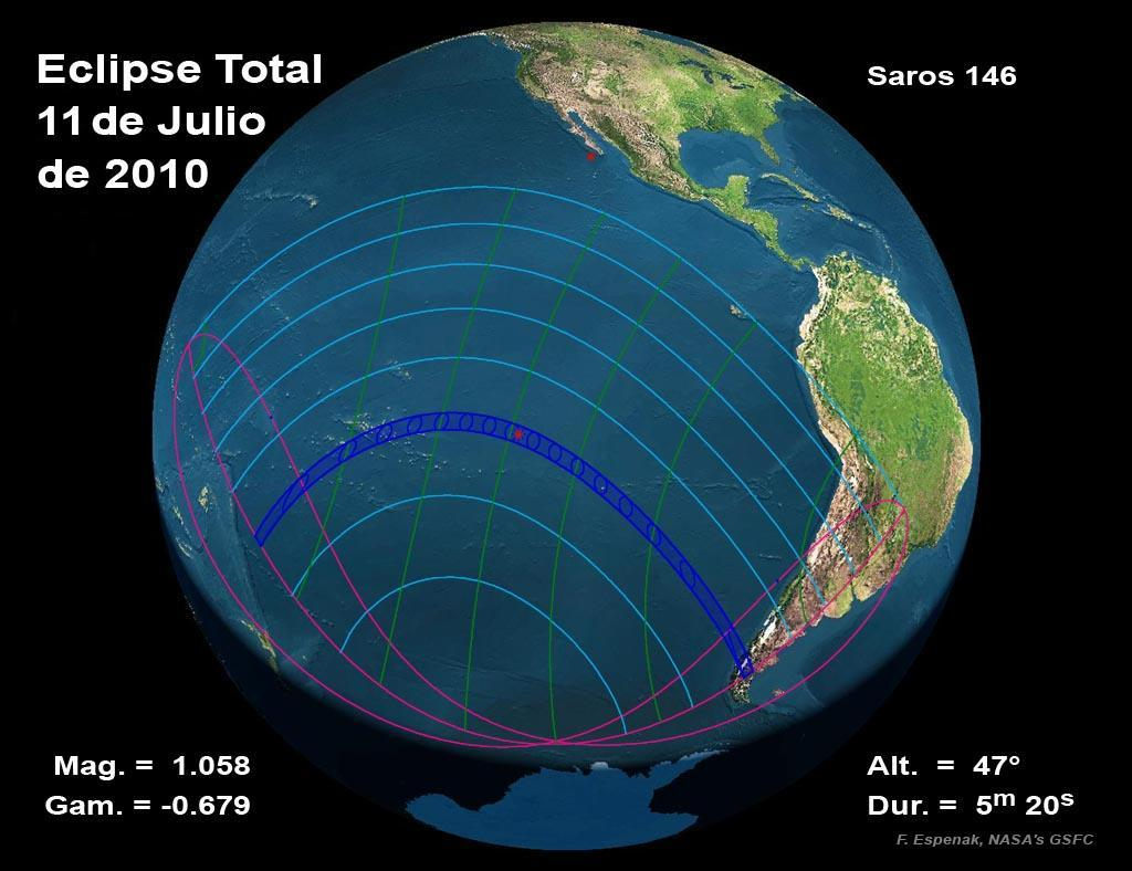 The use of eclipse maps, figures, tables and eclipse predictions in other publications is freely permitted when accompanied by the following credit line: "Eclipse map/figure/table/predictions courtesy of Fred Espenak, NASA/Goddard Space Flight Center."